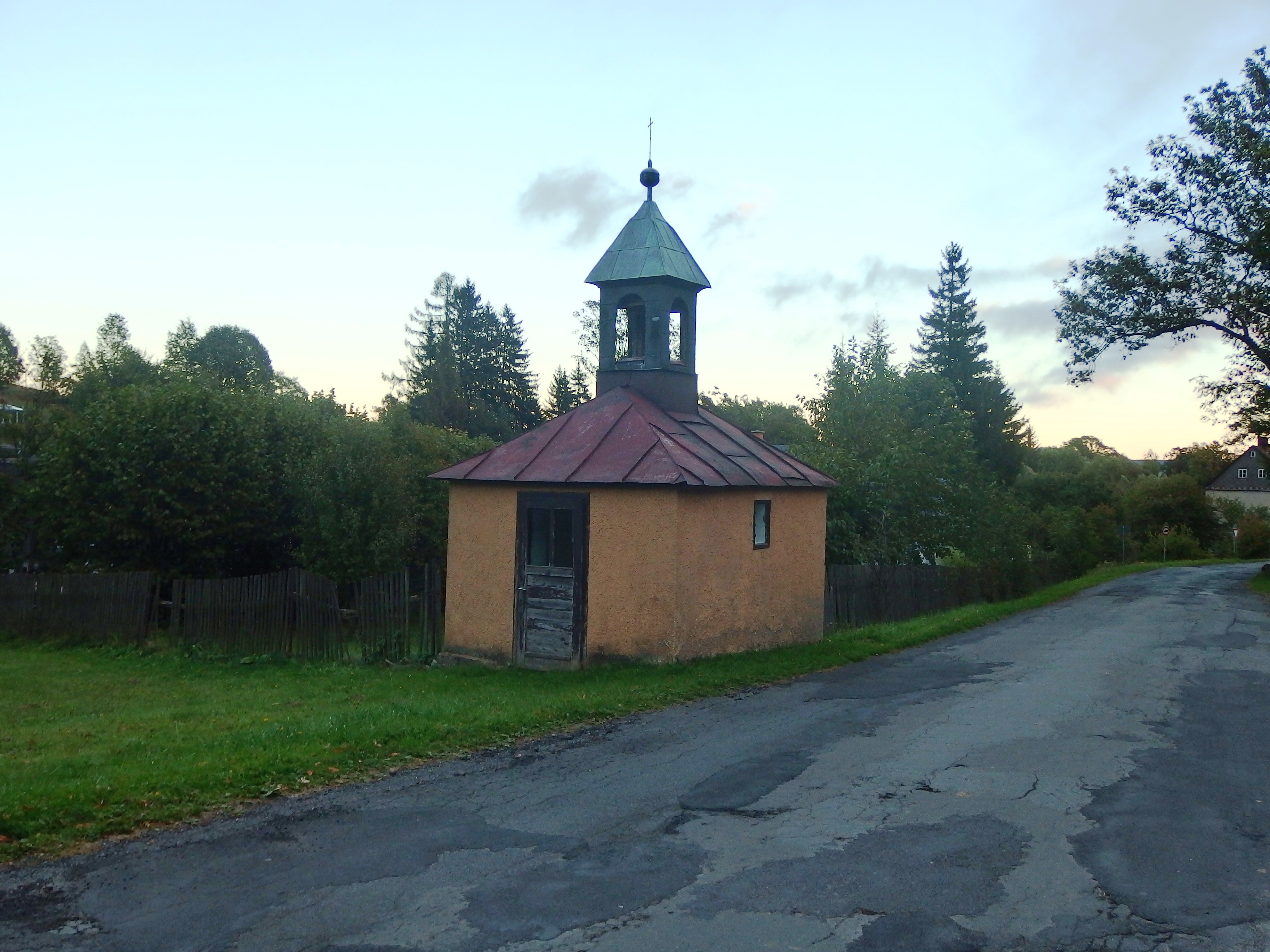 Dolní Moravice, Bruntál District, Czech Republic, part Horní Moravice.